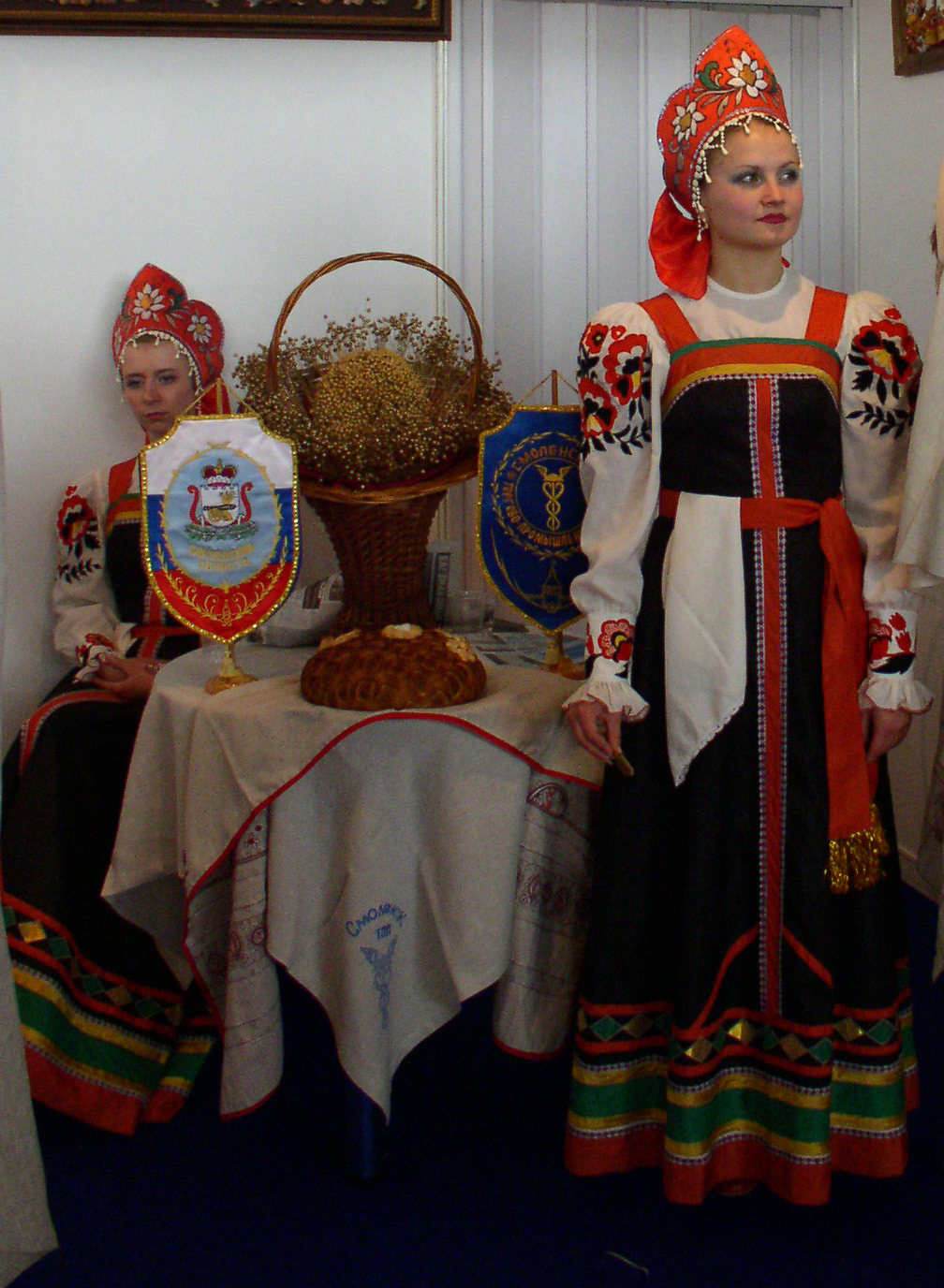 Woman in national (presumably Smolensk region) costume. Russian national exhibition, Minsk, Belarus.